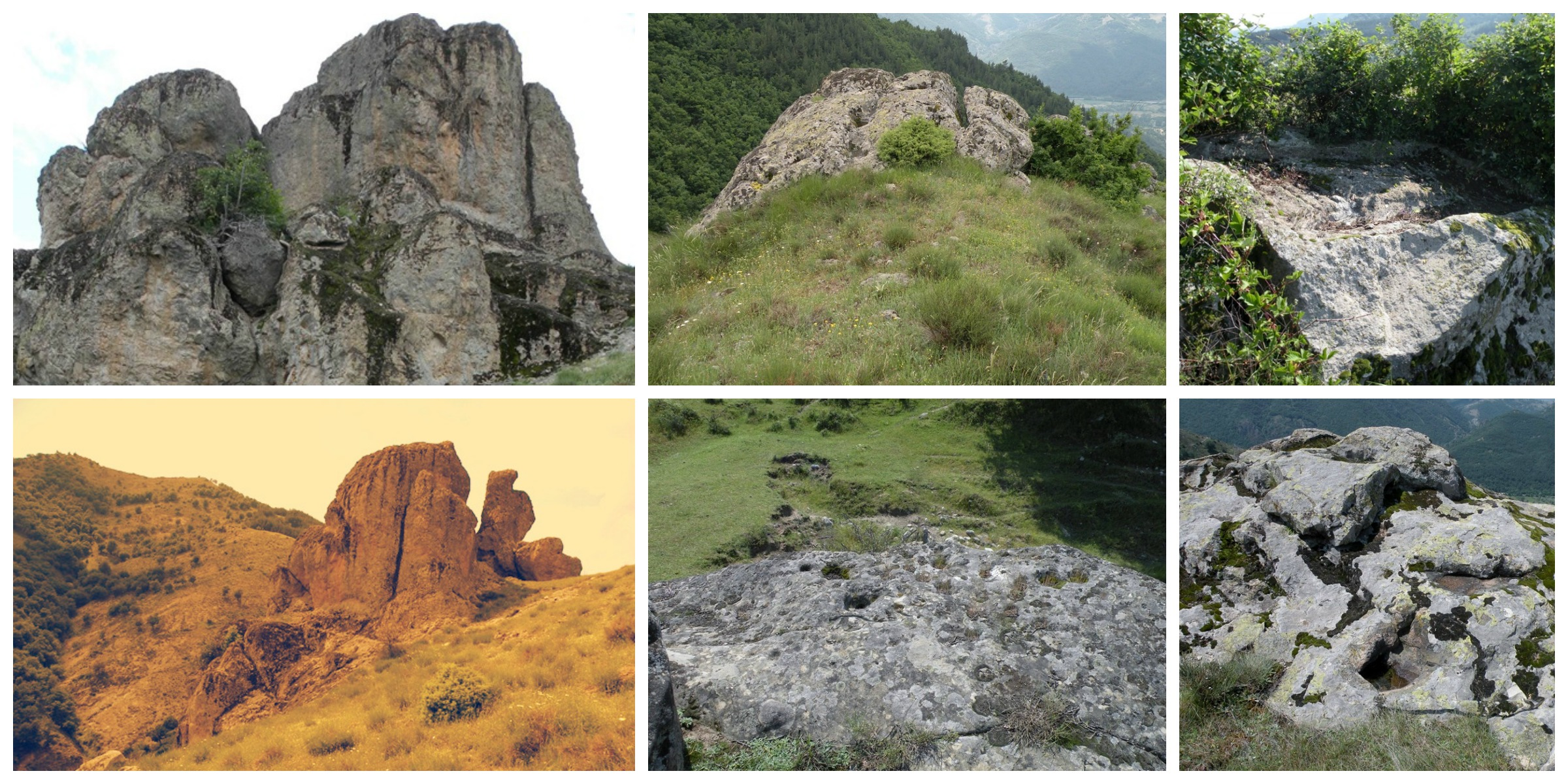 Gerilitza_Ribnovo_WestRhodopes_Bulgaria